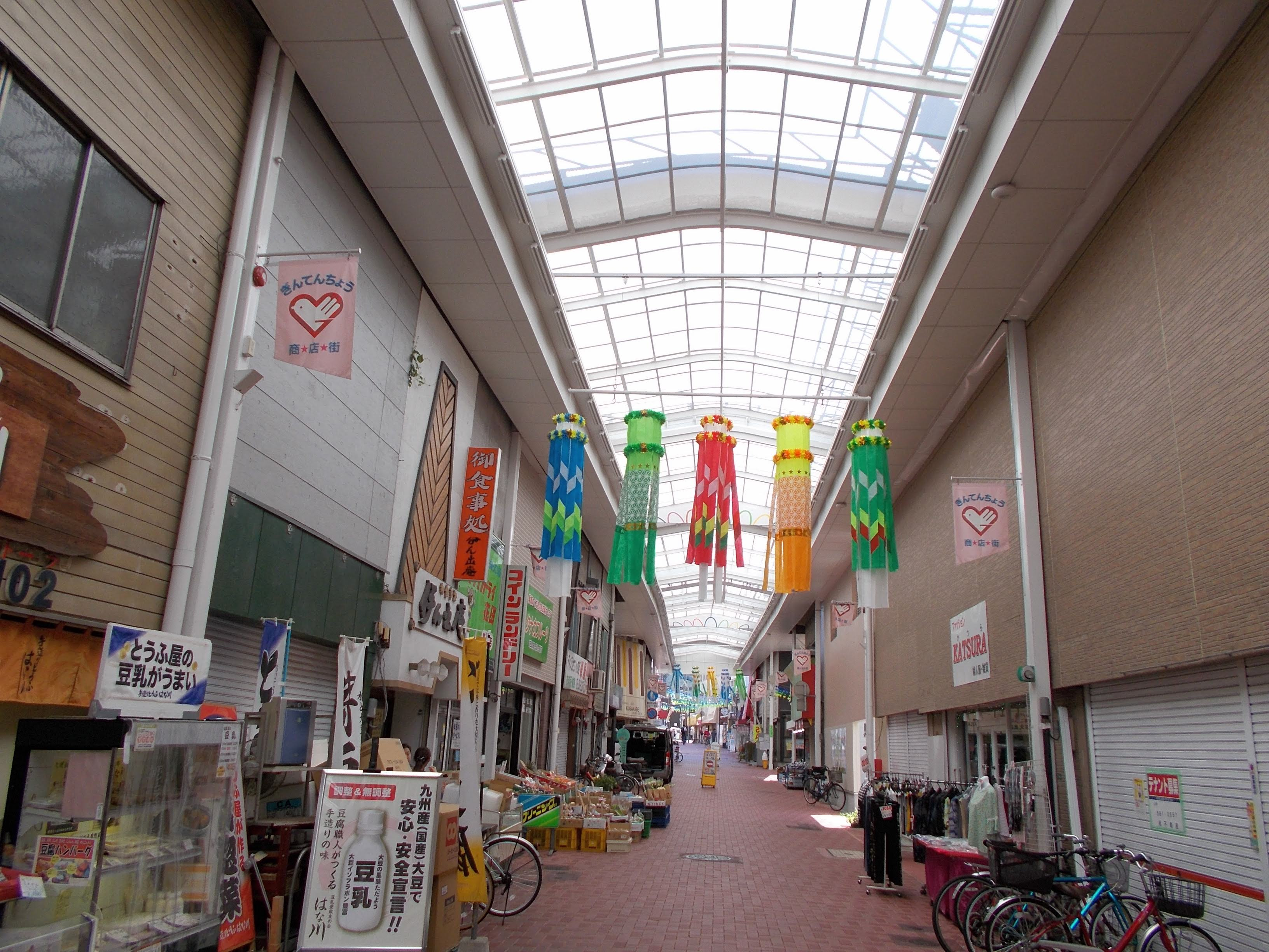 Gintencho Shopping Arcade, Hakata-ku, Fukuoka, Japan